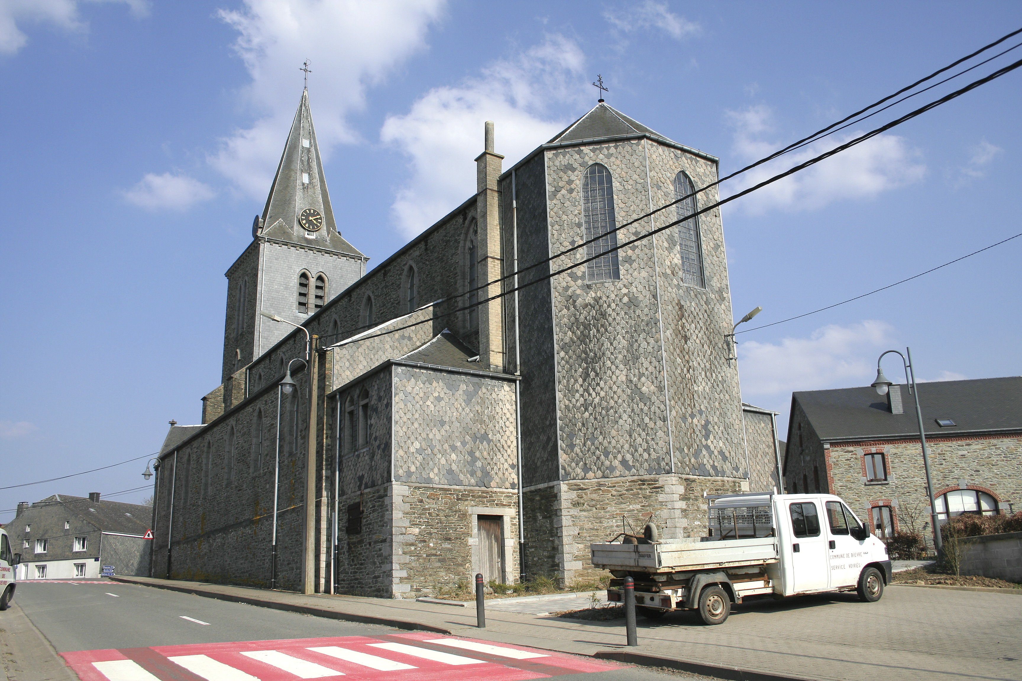 Bièvre (Belgium), the St. Hubert church (1894).